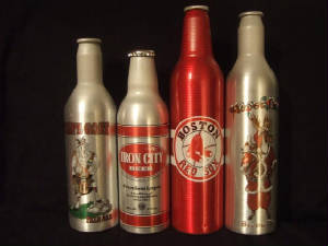 A collection of aluminum bottles, or "cabottles", at the East Taunton Beer Can Museum.